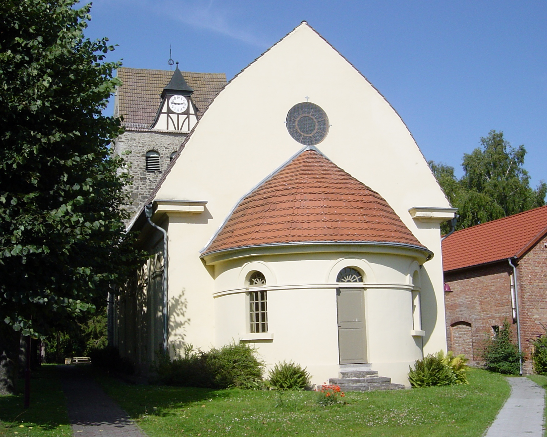 Protestant church St. Mauritius in Bornstedt, Germany